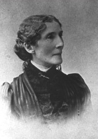 Image of Mary Electa Adams. Although the date this image was taken is unknown, it is in the public domain in Canada because the subject died before January 1, 1949, meaning that the image could not have been taken past this date (and therefore still be in copyright).